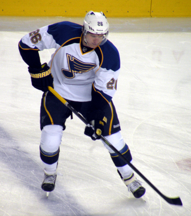 St. Louis Blues forward Dmitri Jaškin prior to a National Hockey League game in Calgary